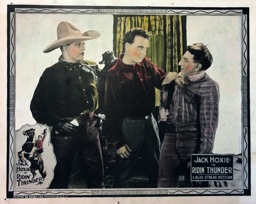 Lobby card for the American western film Ridin' Thunder (1925) with Jack Hoxie and Jack Pratt (1878–1938).